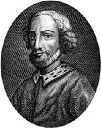 Kenneth III, King of Scotland